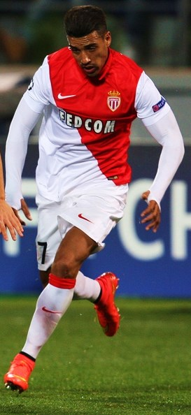 Nabil Dirar